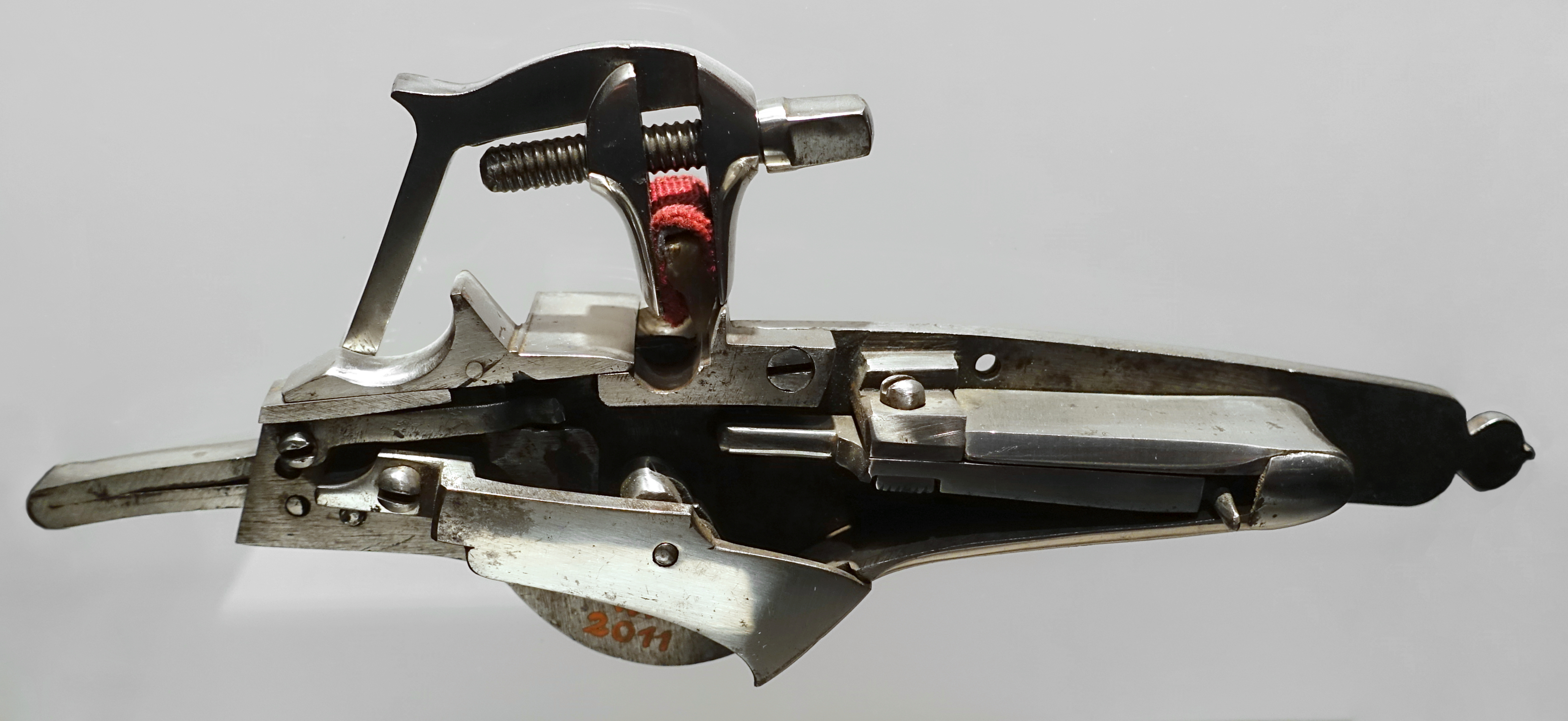 Exhibit in the Stadtmuseum Fembohaus - Nuremberg, Germany.